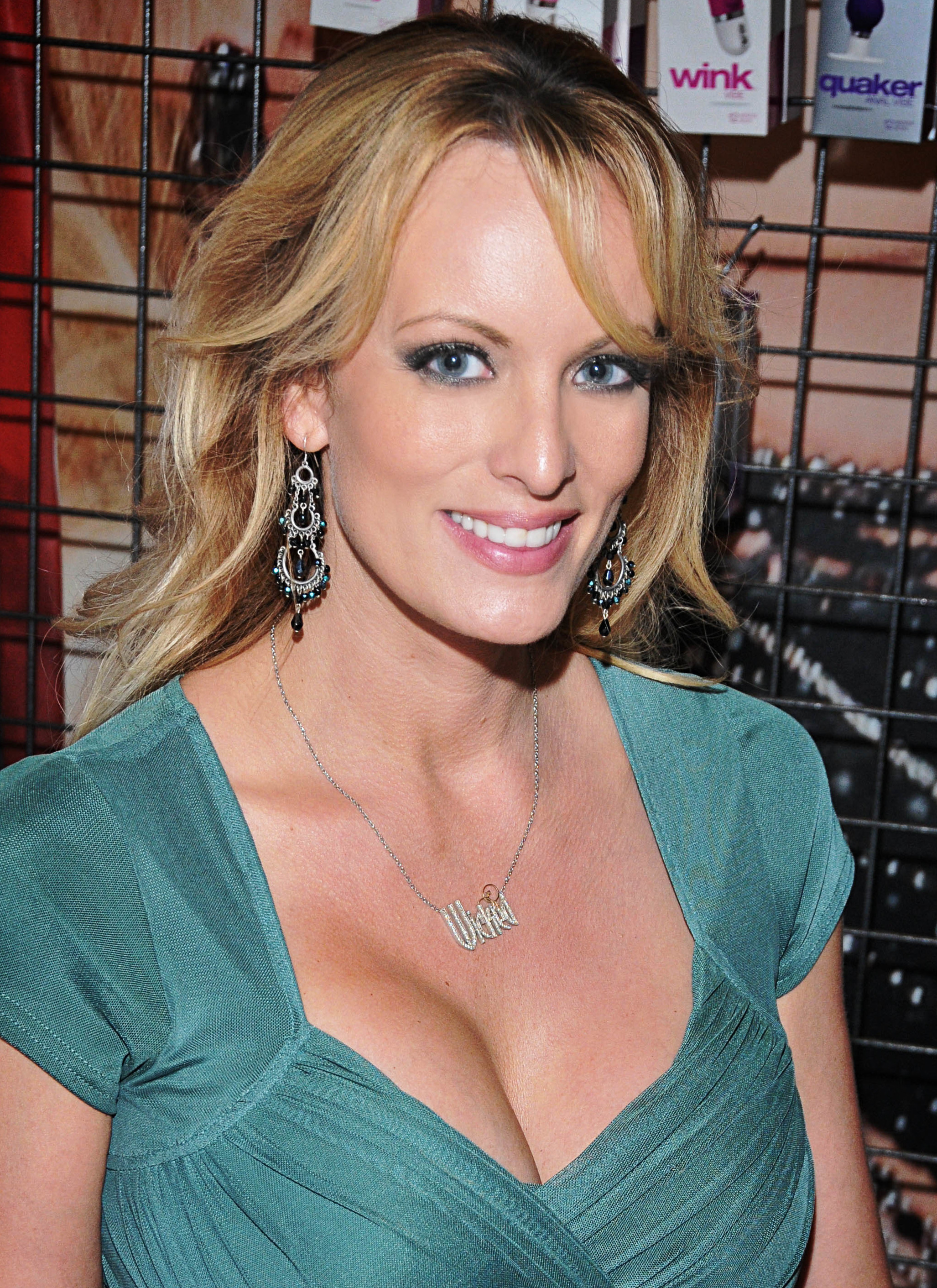 Stormy Daniels, Dallas Texas on August 7, 2015 - Photo by Glenn Francis of